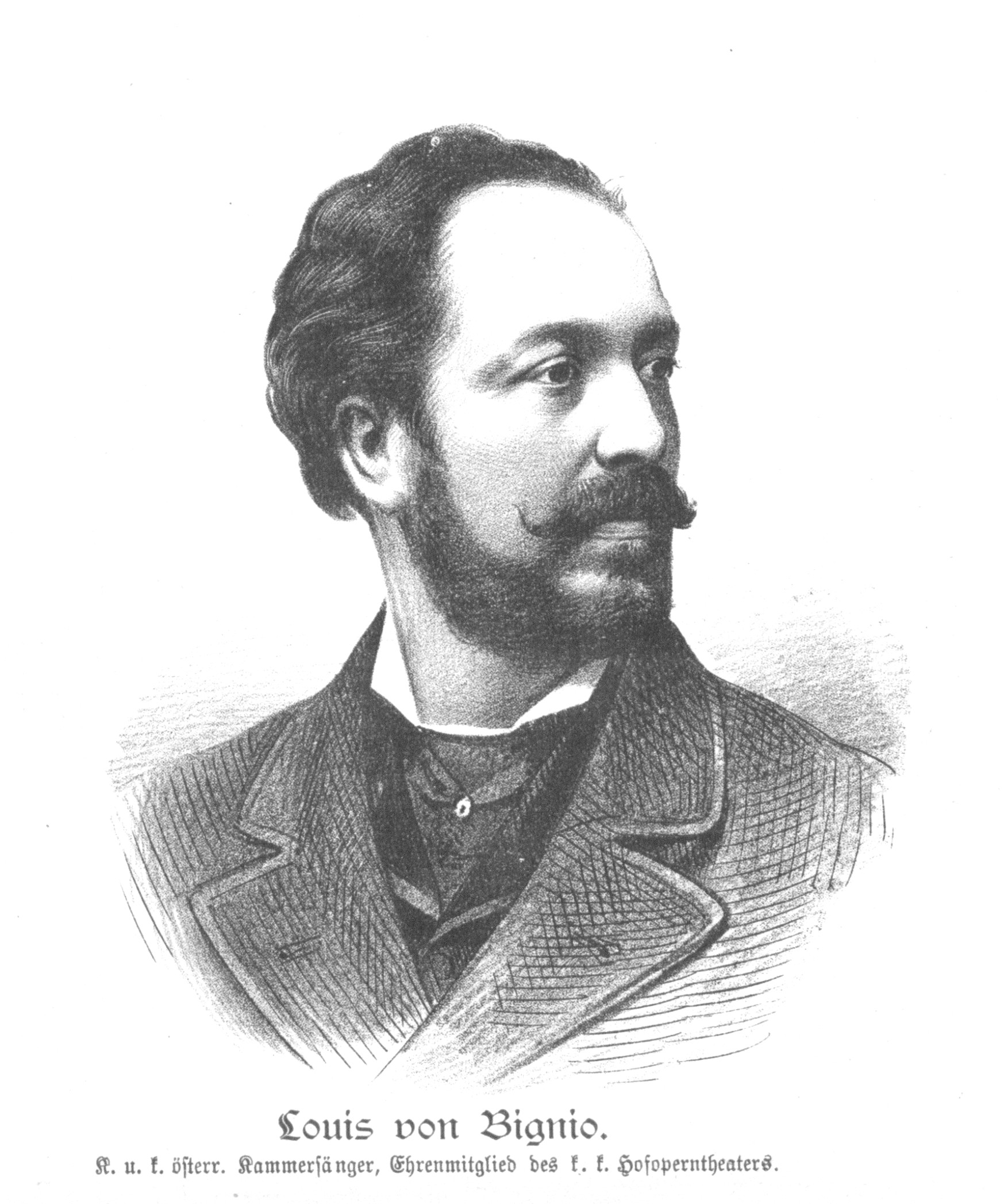 Portrait of Louis von Bignio (1839-1907), Austrian opera singer.